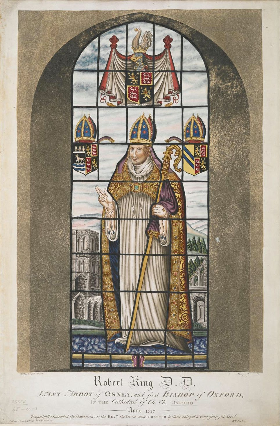 1808 hand-coloured print by William Fowler (1761-1832), of Robert King (d.1558) Bishop of Oxford. The title of the image is "Robert King D.D. LAST ABBOT of OSNEY, and first BISHOP of OF OXFORD, IN THE Cathedral of Ch. Ch. OXFORD, Anno 1557. Wm Fowler Delt et Fecit" (sic)